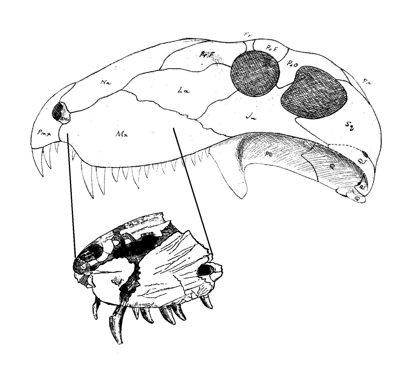 Left maxilla of Dimetrodon borealis (below) with comparison of Dimetrodon's skull. Based on drawings from J.Leidy and R. Broom papers.